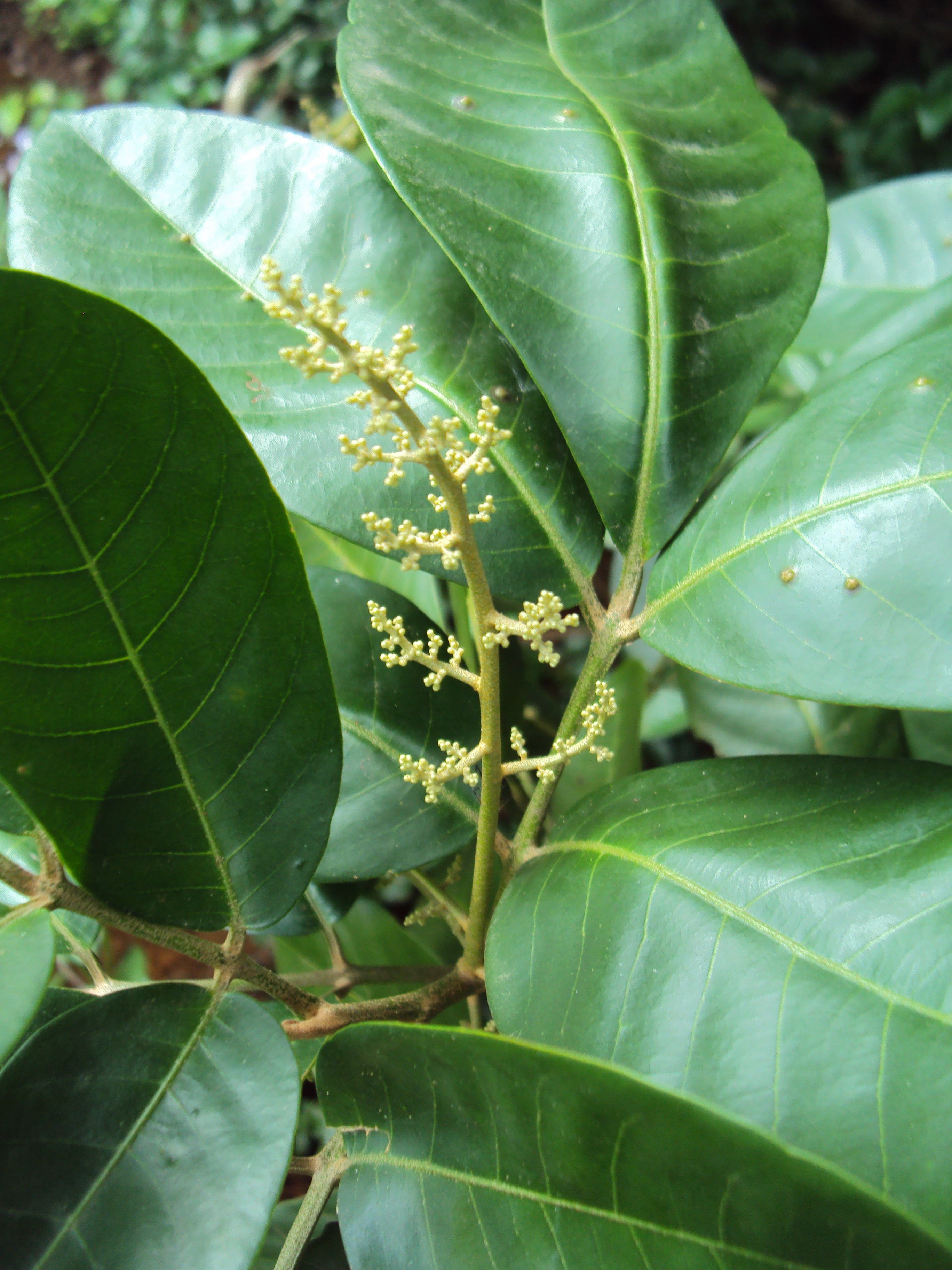 Aglaia roxburghiana